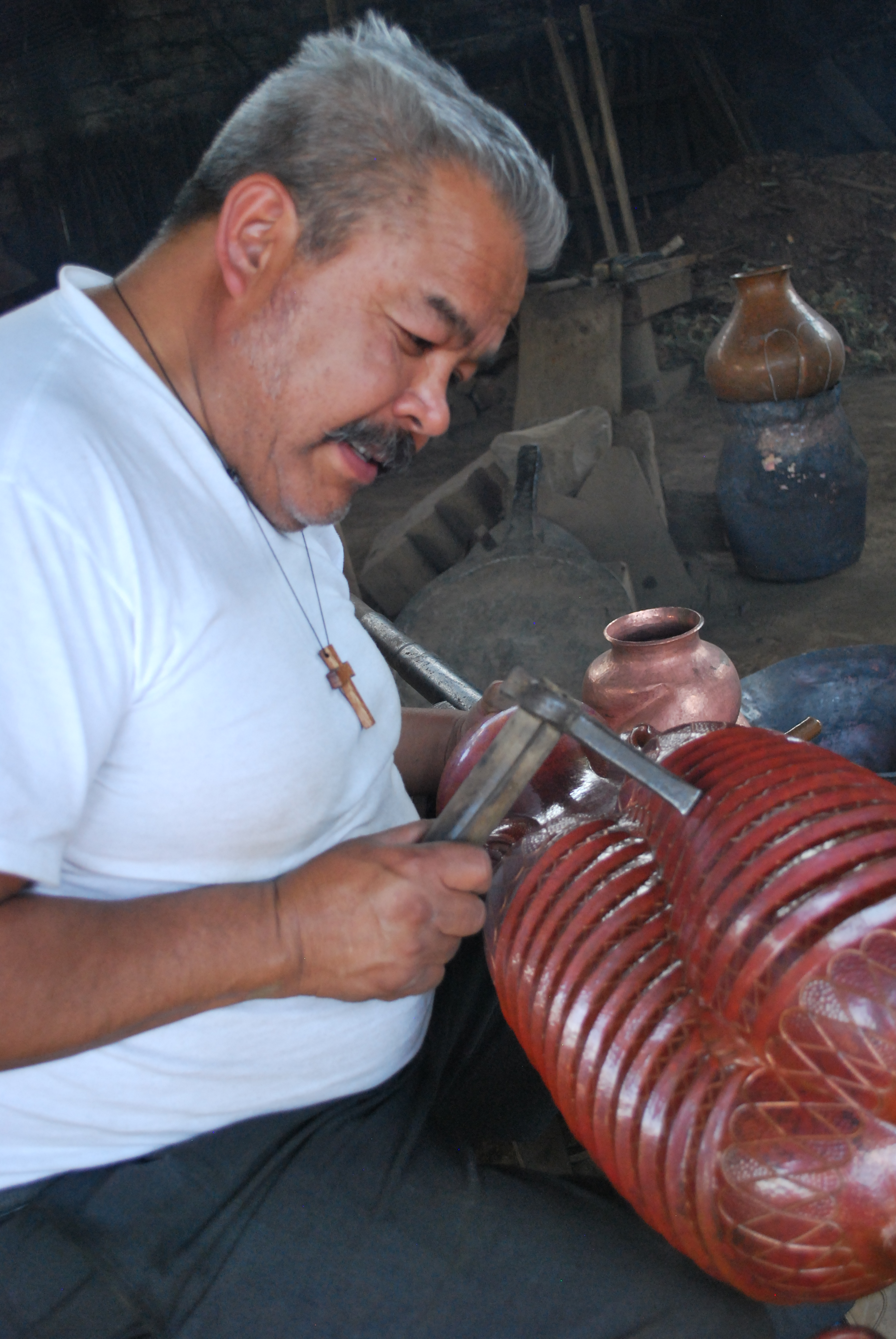 Abdón Punzo working on a copper piece in his workshop in Santa Clara del Cobre, Michoacán